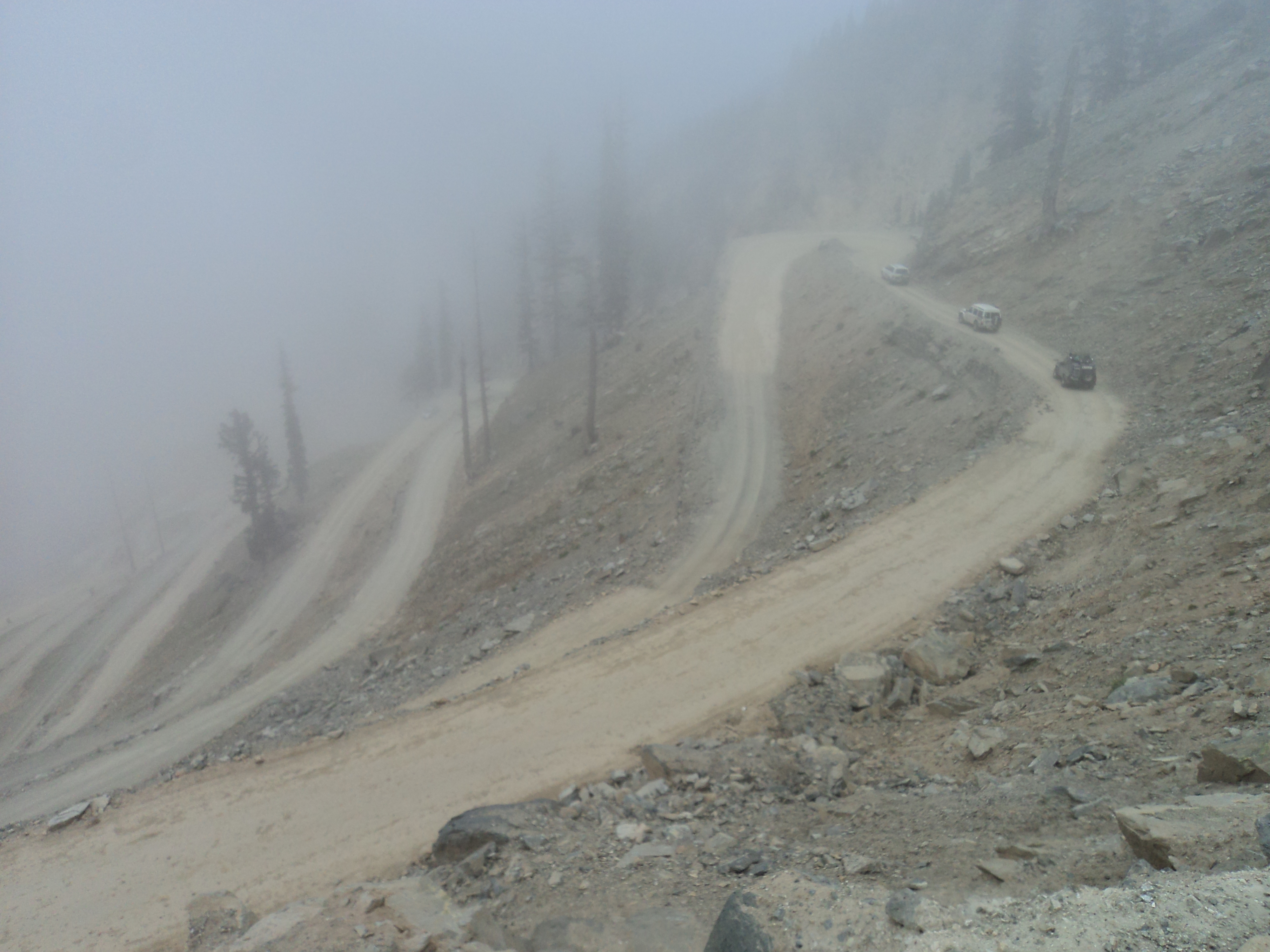 Lowari Pass/Top road, near Chitral Valley, KPK, Pakistan